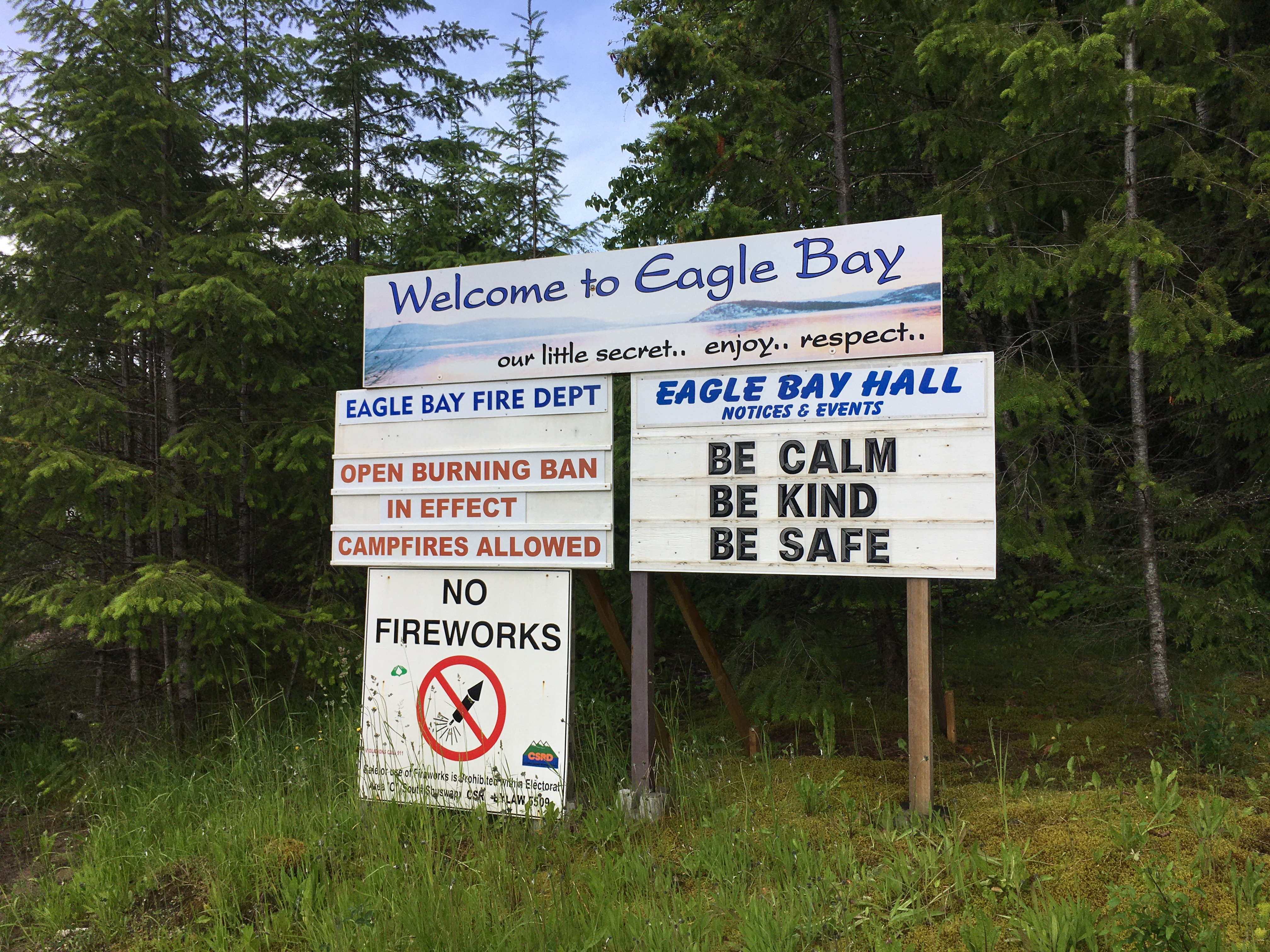 Community association sign in Eagle Bay, British Columbia, Canada, bearing the phrase "be calm, be kind, be safe". Phrase coined by British Columbia Provincial Health Officer Bonnie Henry during the 2020 Covid-19 viral outbreak.